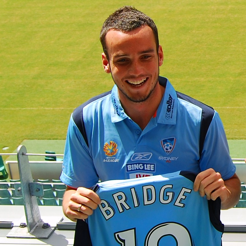 Mark Bridge signs for Sydney FC